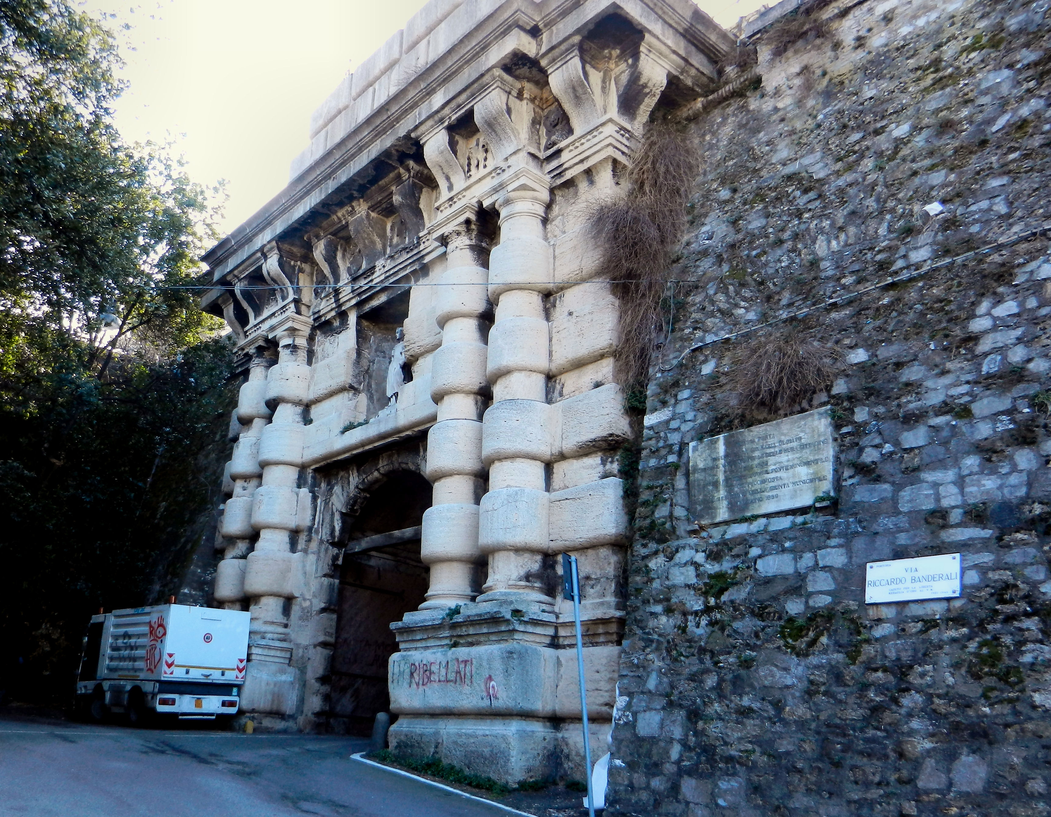 Genoa, Italy, Porta degli Archi (XVI century city gate)